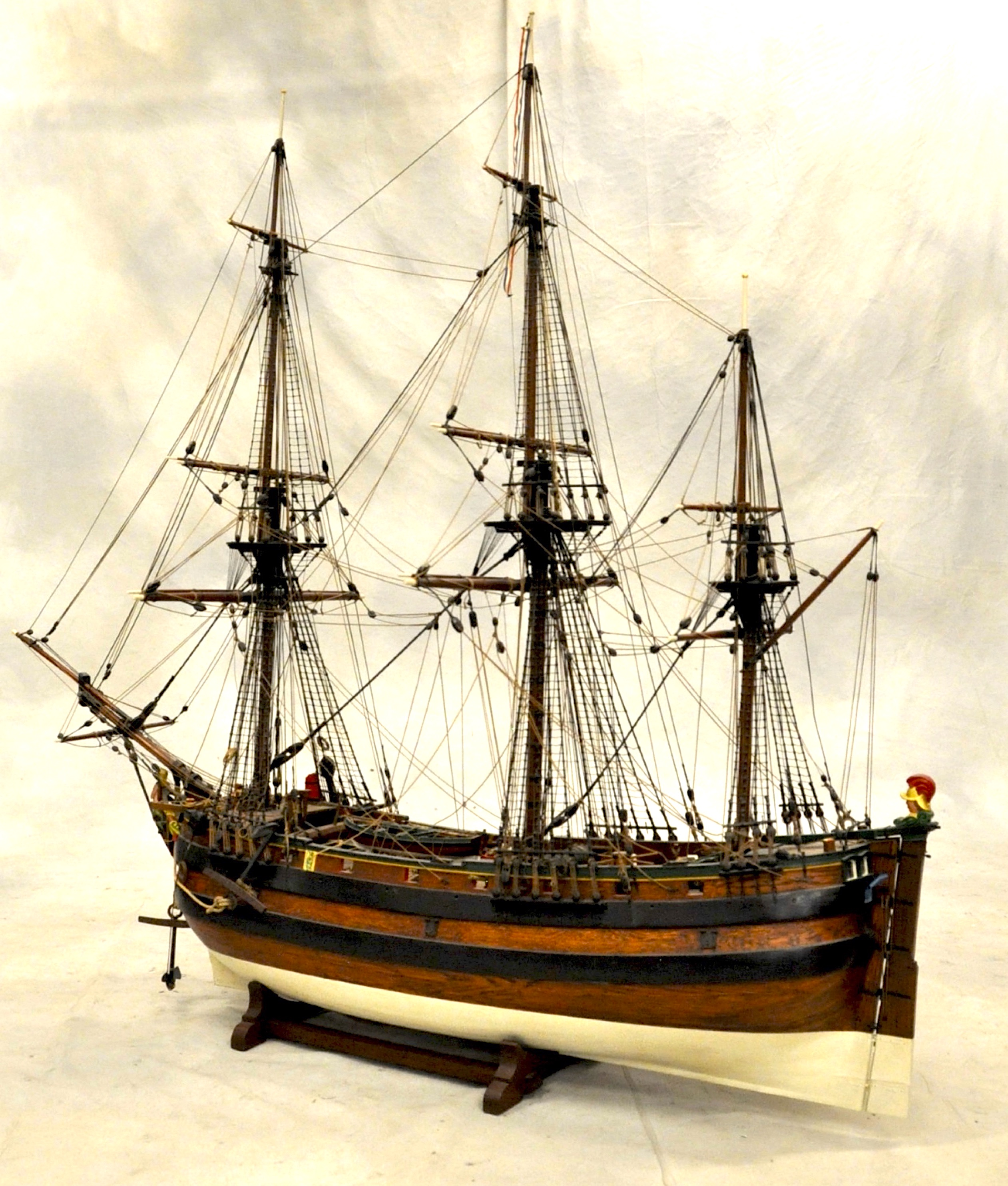 A 1/30 scale model of the Meermin approx. 1.60 m. long